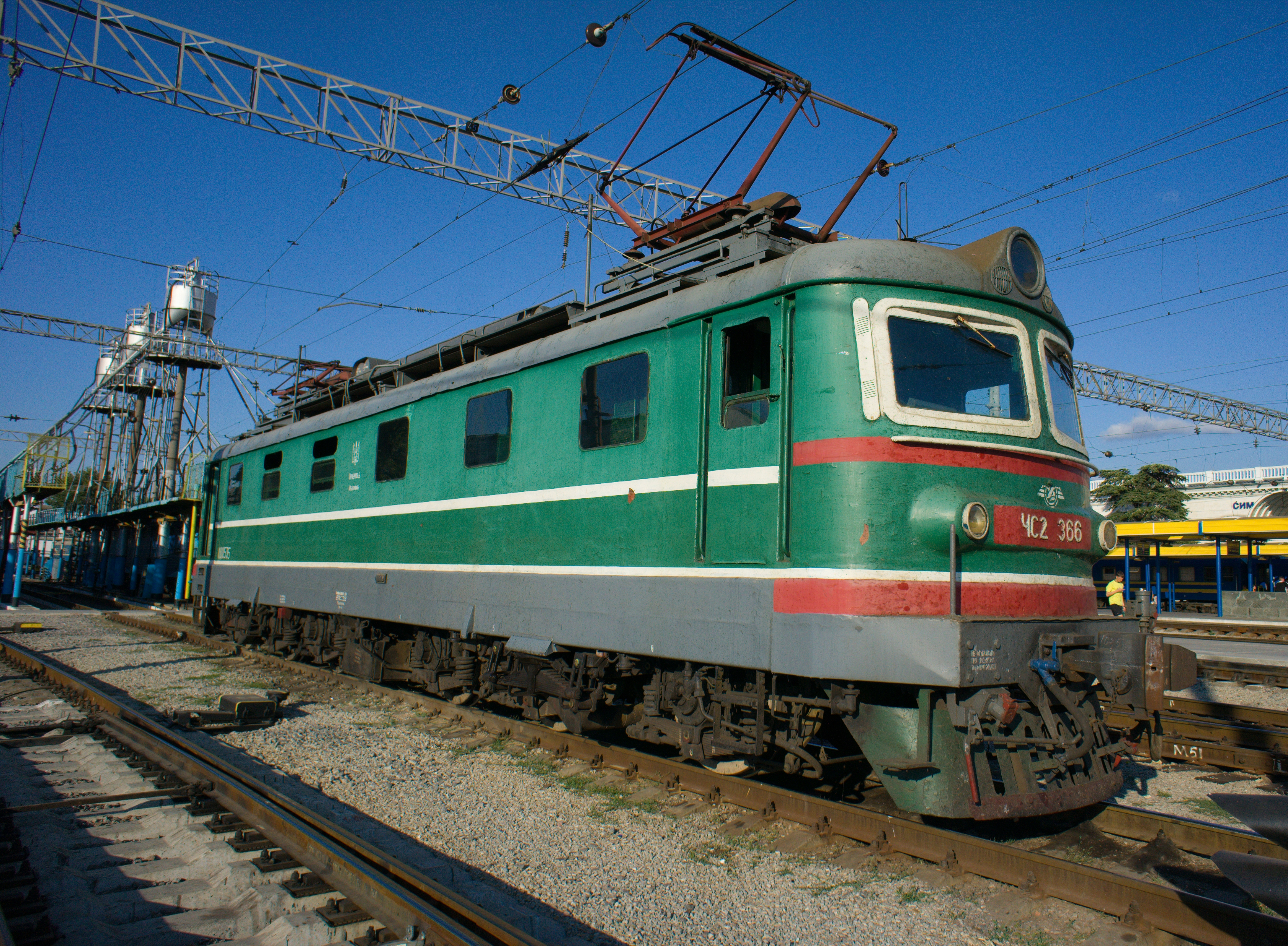 Electric locomotive ЧС2-366 in Simferopol, Ukraine.